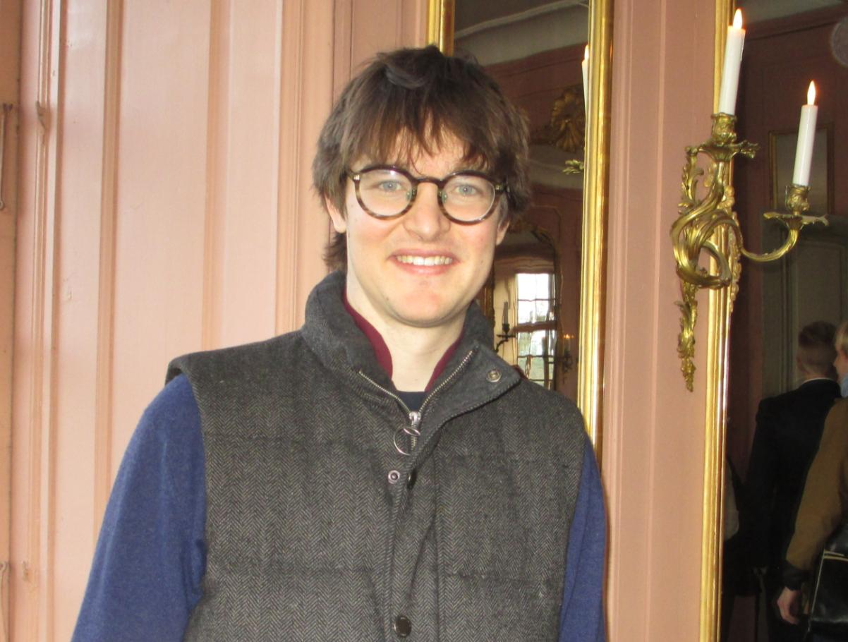 Hugo TicciatiPlace: Ulriksdal Palace Theater, Solna, Sweden